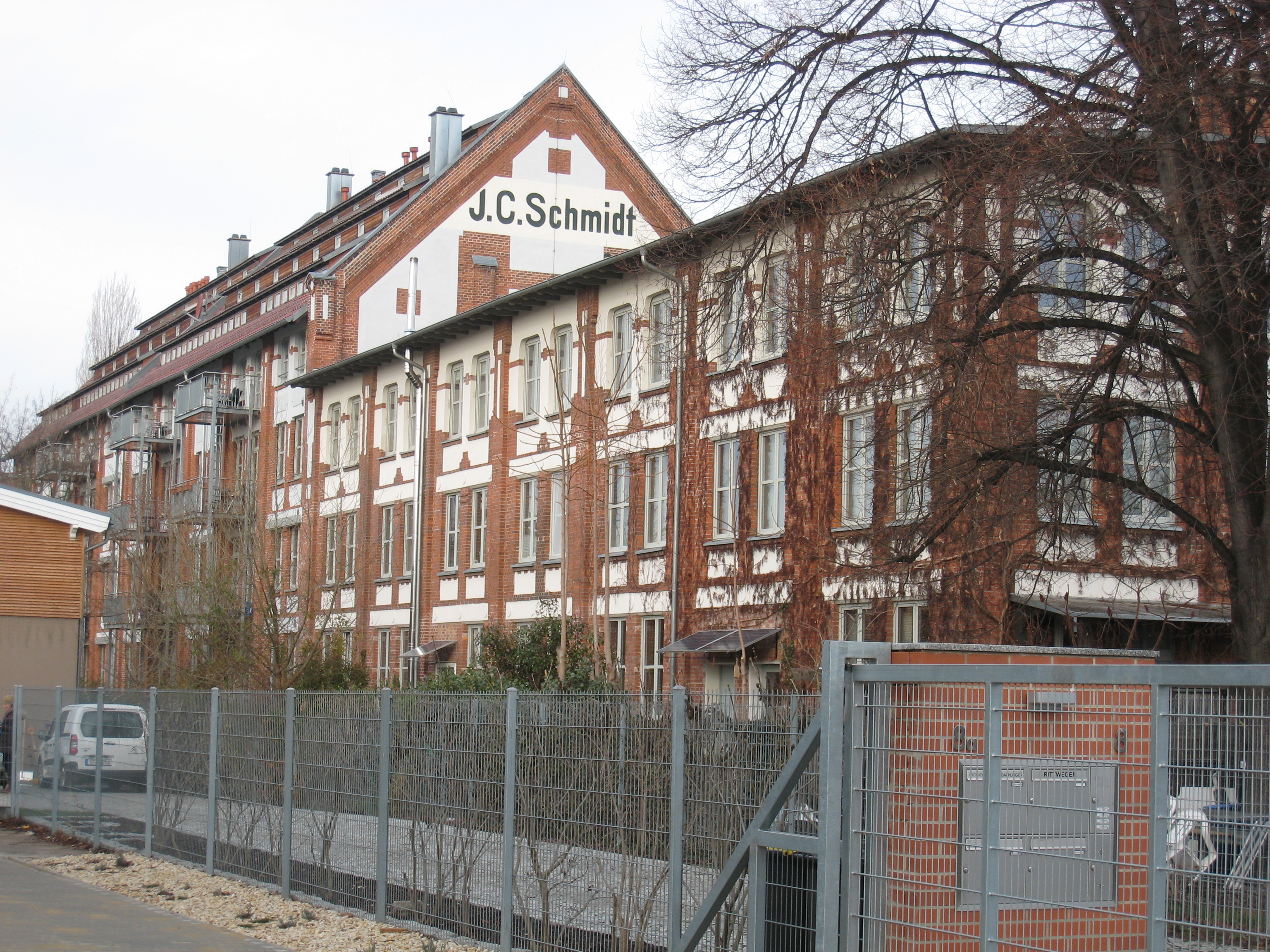 Former flower factory J. C. Schmidt, Erfurt, Am Alten Nordhäuser Bahnhof 6